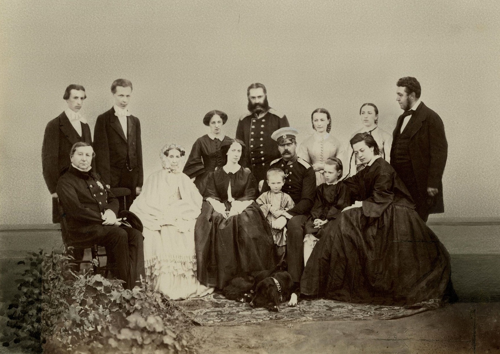 Alexander II, Maria Alexandrovna